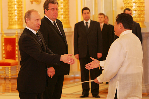 THE KREMLIN, MOSCOW. The Ambassador of the Republic of the Philippines, Victor Garcia, presents his credentials to the President of Russia.